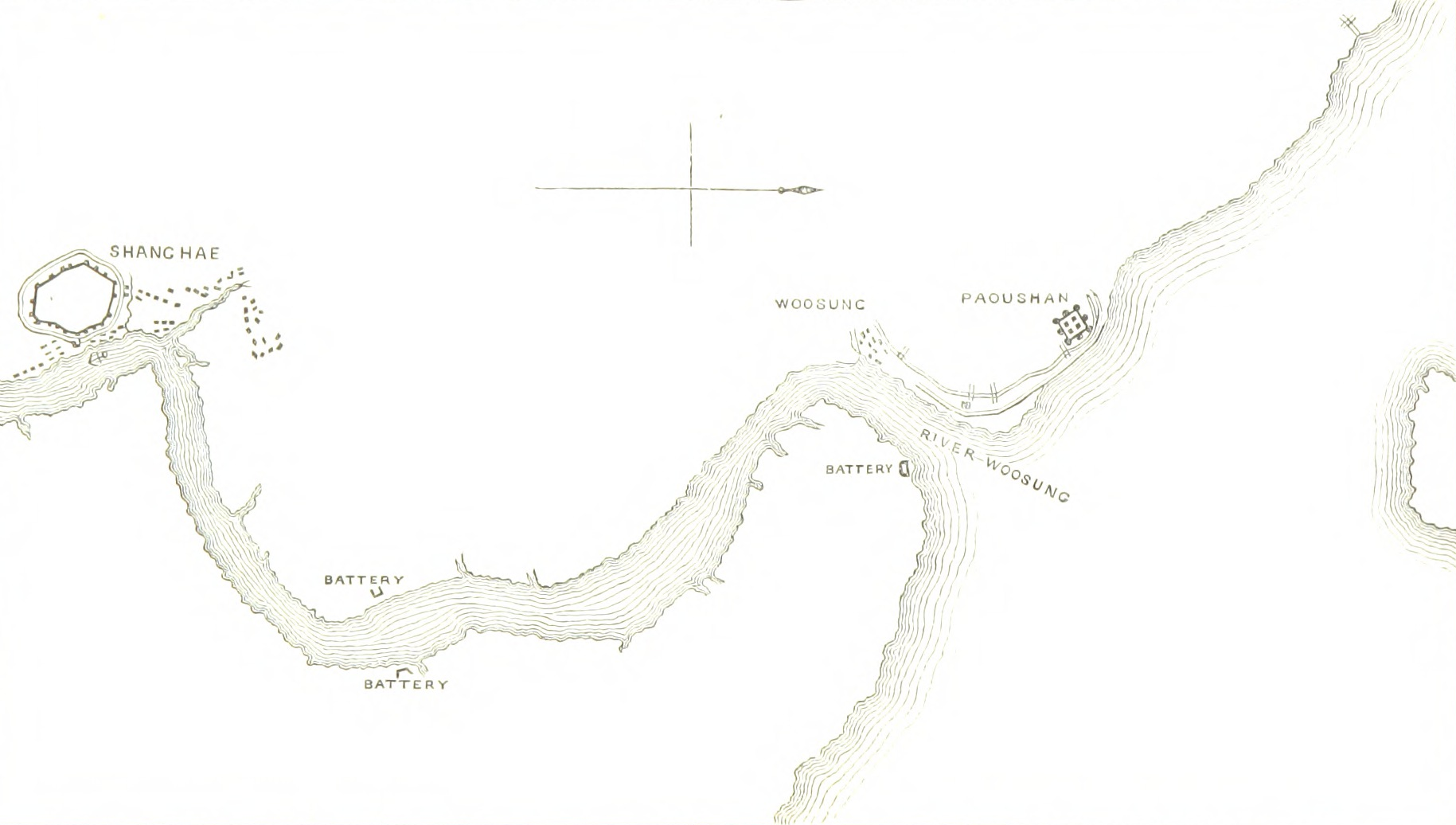 Port of Shanghai.